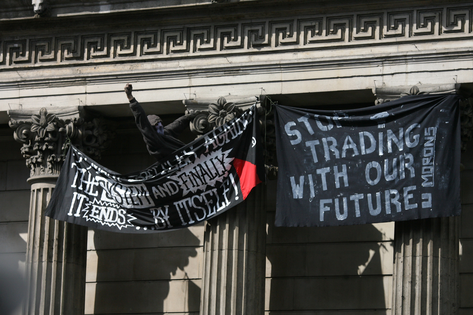 One protester scaled pillars to hang banners outside the Bank of England along the bank's front on Threadneedle Street in London's financial district on Wednesday April 1, 2009.